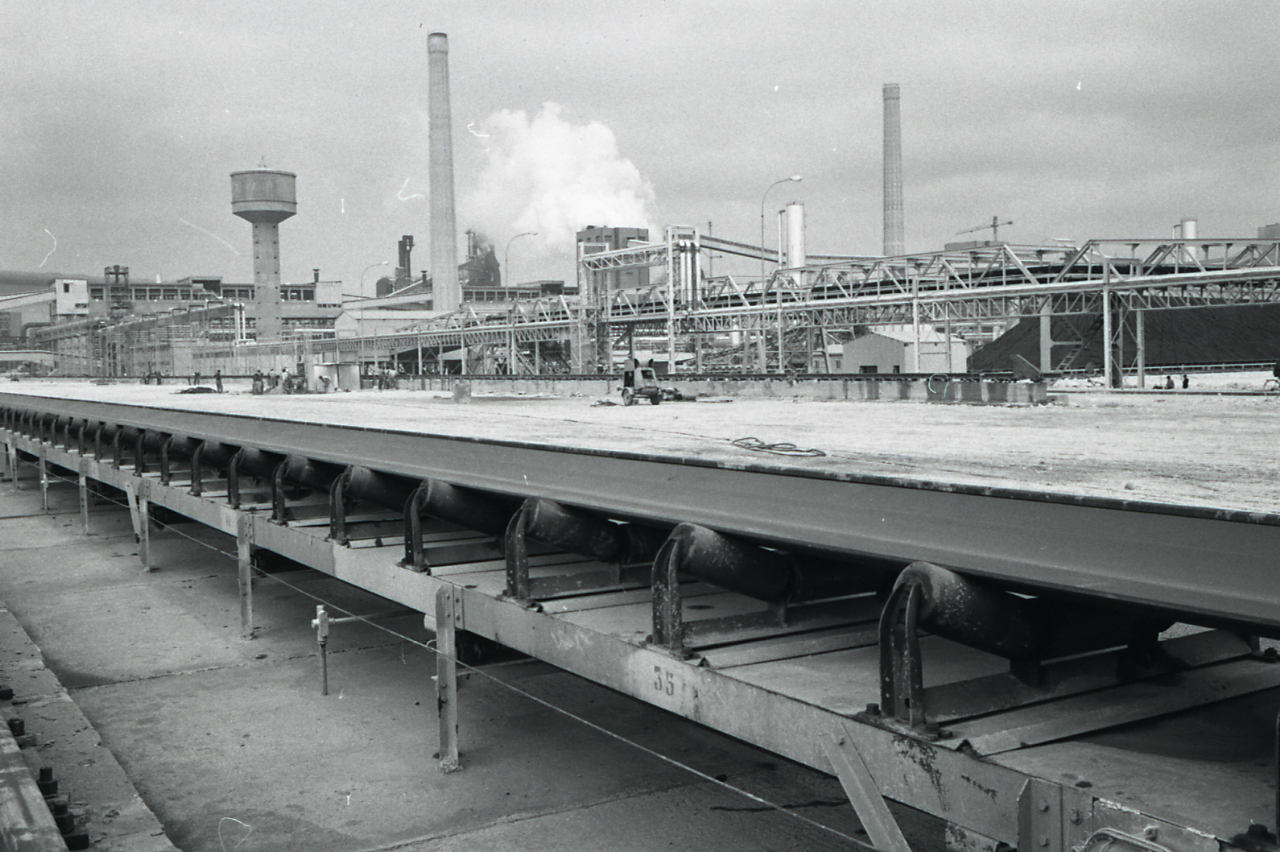 Belt conveyor in Italy in 1964